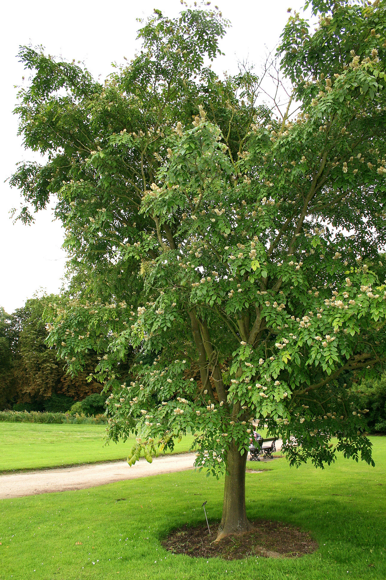 Amur Maackia - (Maackia amurensis) Precise location : National Botanic Garden of Belgium - Meise (Belgium). Walon: Maackie di l’Amour - (Maackia amurensis) Place rècta: Jardin botanike national di Bèljike - Meise (Bèljike).